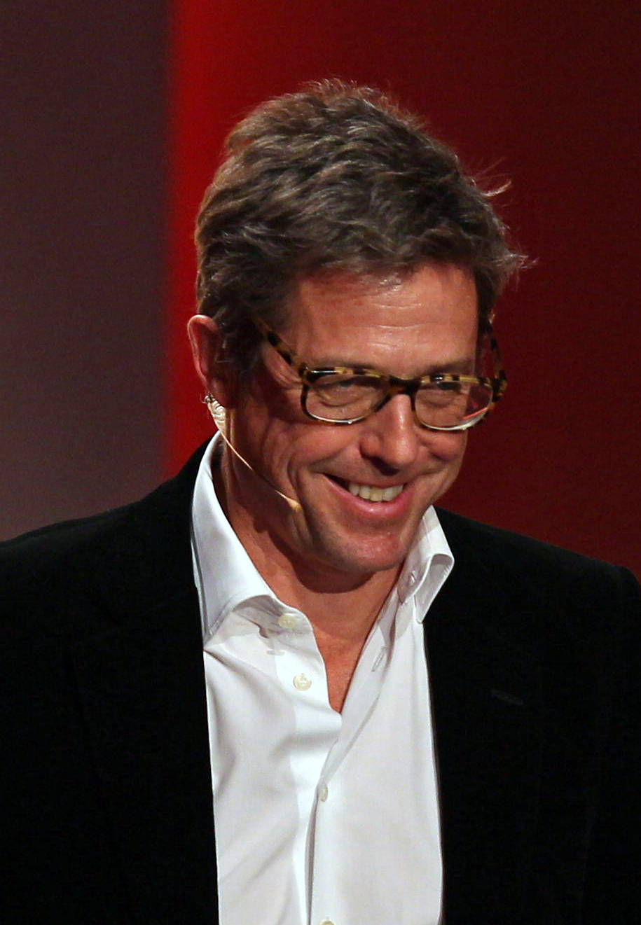 Wetten, dass.. ? 214. show in Graz, 8. Nov. 2014 Hugh Grant at 214. Wetten, dass.. ? show in Graz, 8. Nov. 2014